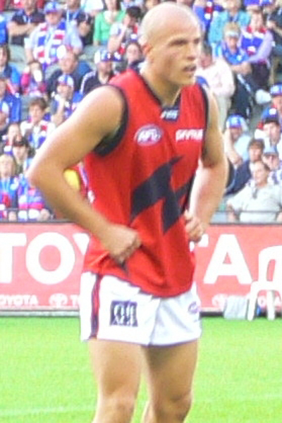 Nathan Jones, Australian rules footballer. He's only 21.